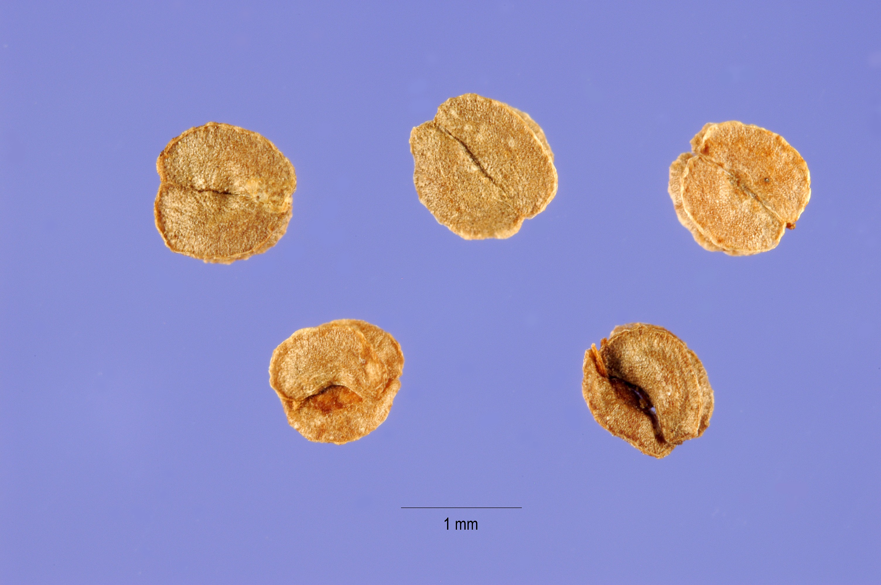 Callitriche palustris seeds This image is not copyrighted and may be freely used for any purpose. Please credit the artist, original publication if applicable, and the USDA-NRCS PLANTS Database. The following format is suggested and will be appreciated: Steve Hurst @ USDA-NRCS PLANTS Database If you cite PLANTS in a bibliography, please use this USDA, NRCS. 2008. The PLANTS Database ( 7 September 2008). National Plant Data Center, Baton Rouge, LA 70874-4490 USA.